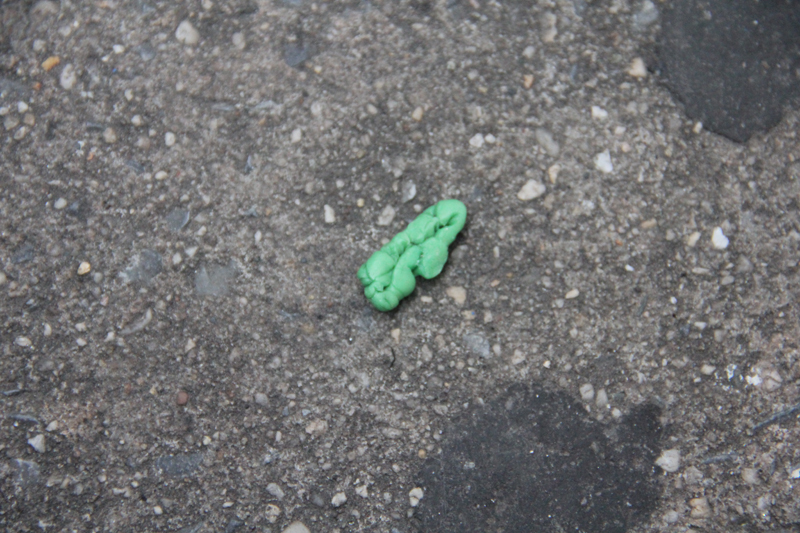 Discardedchewing gum collected by Heather Dewey-Hagborg for Stranger Visions